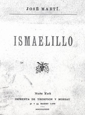 Ismaelillo Cover Book